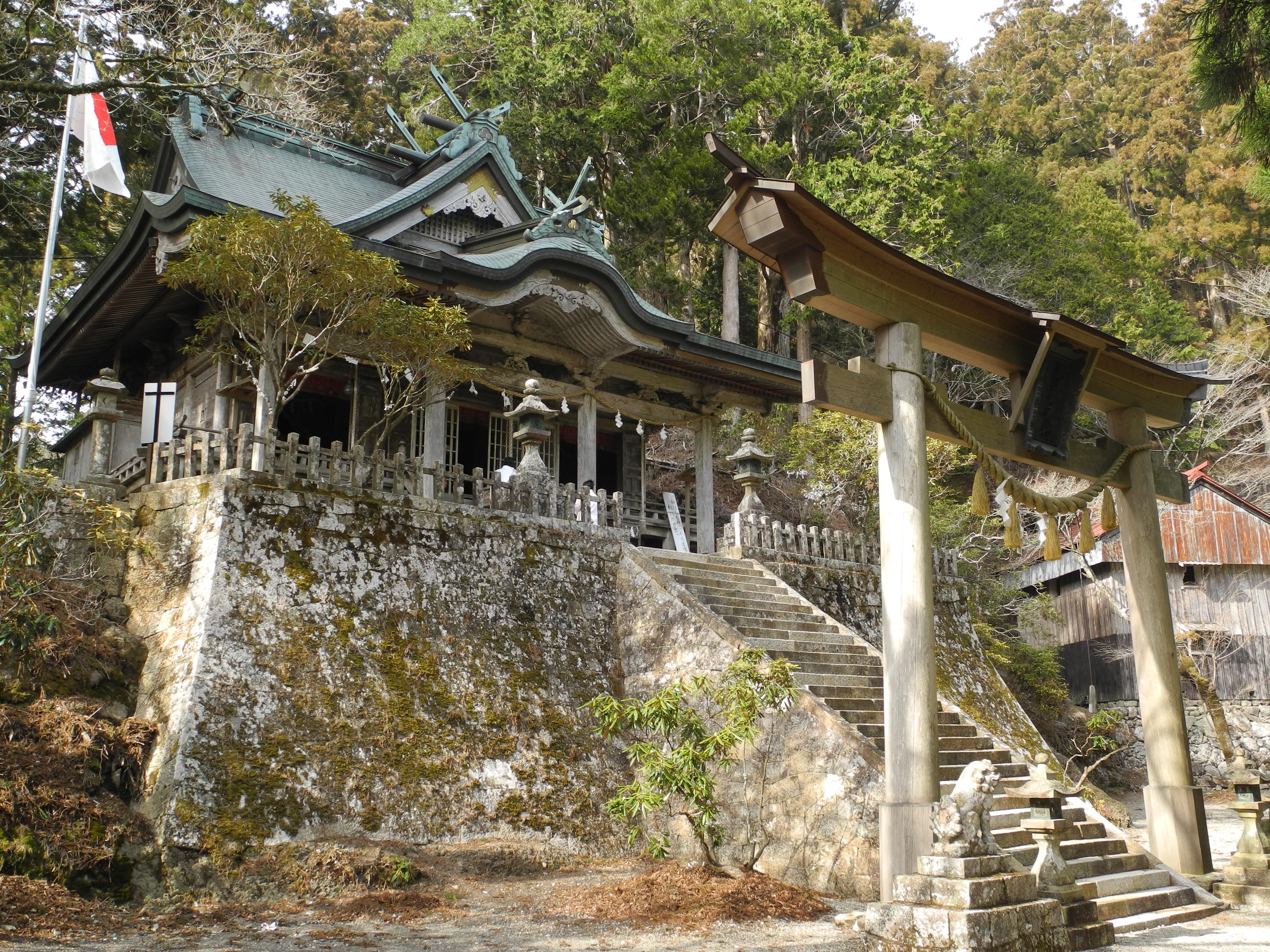 Tamaki Jinja, Totsukawa, Nara